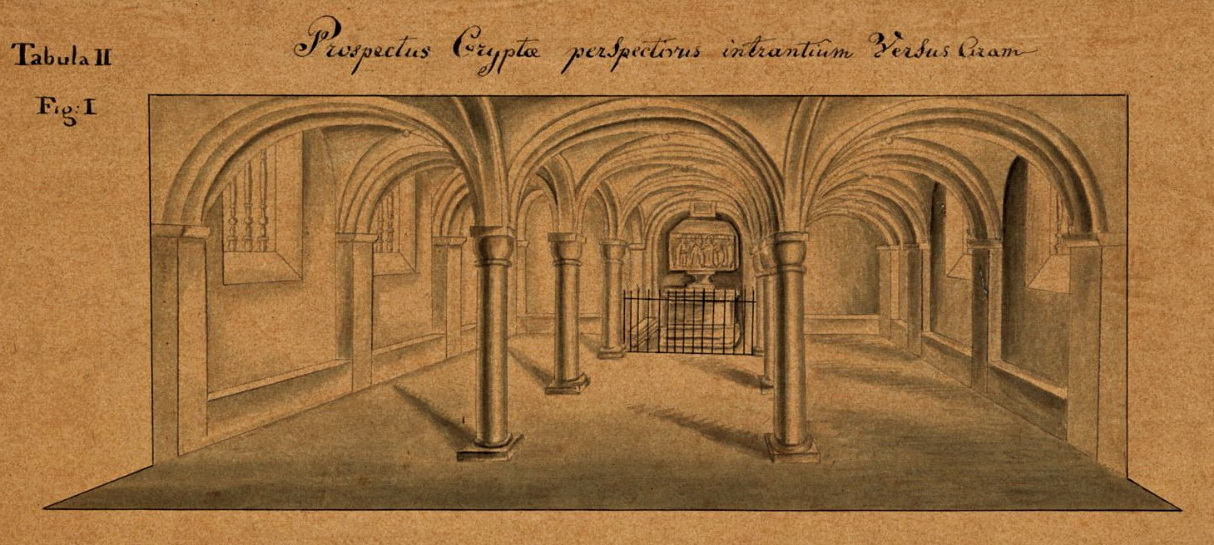 Drawing of the crossing crypt of the Basilica of Saint Servatius in Maastricht, the Netherlands. The drawing by Martinus van Heylerhoff? (1776-1854) was made after the crypt was largely demolished in 1805. It was reconstructed in 1881.